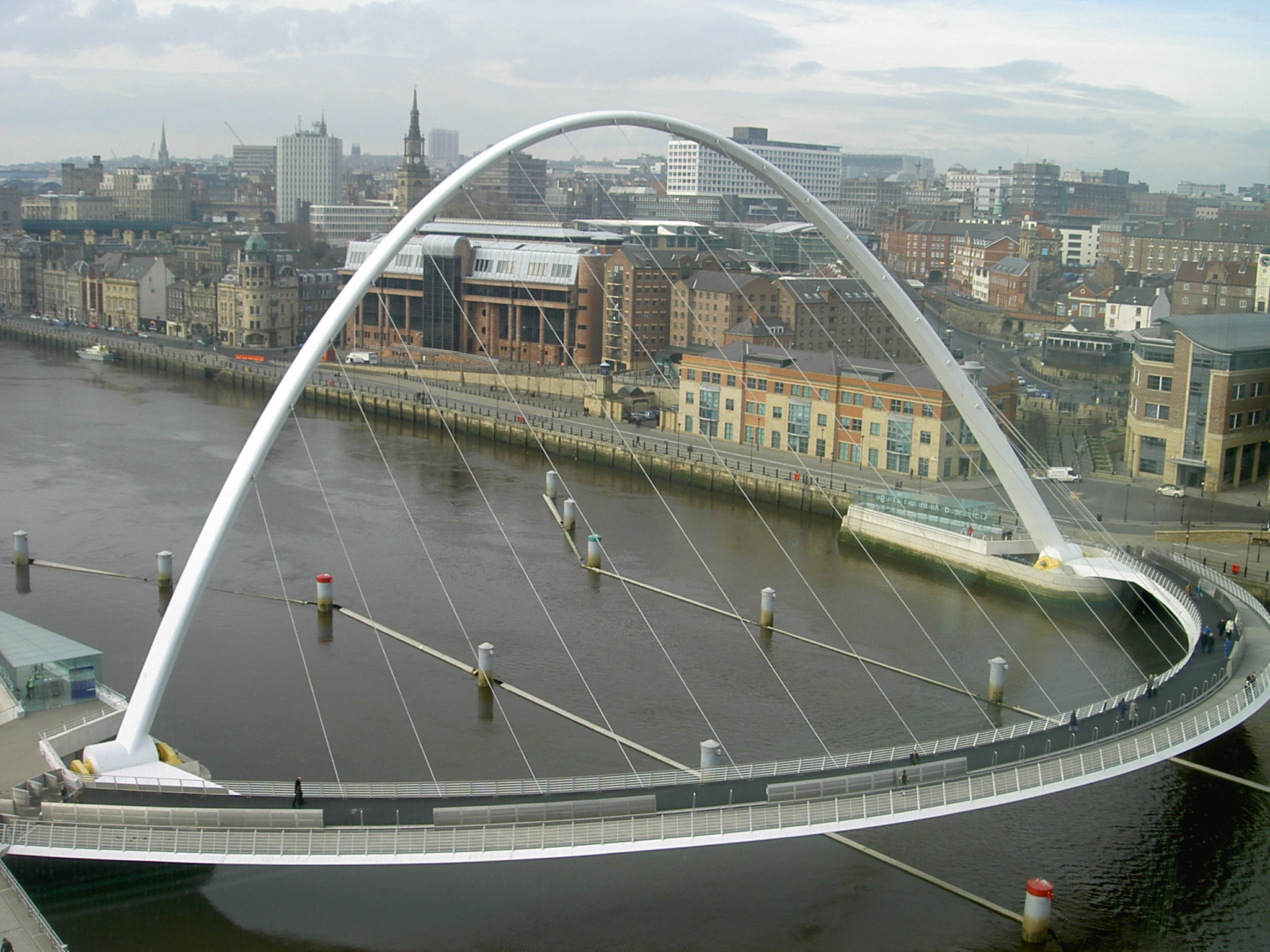 Gateshead Millennium Bridge, taken from the Baltic